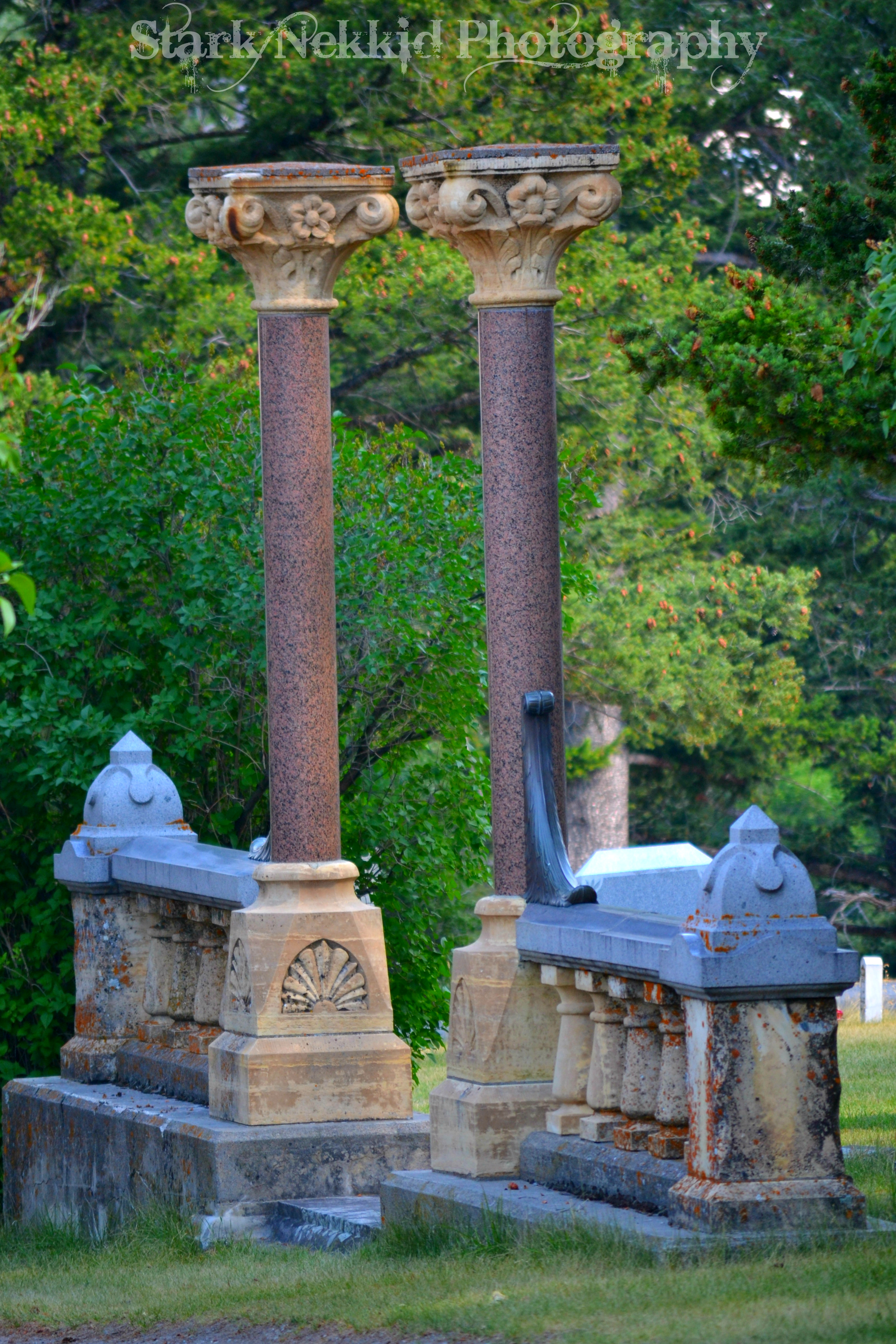 Nelson Story was one of the founding fathers of the city of Bozeman. This photo is the marker to his family plot. These were once the front porch columns to his original house in Bozeman when it was built on main street. Strangers often wandered into the house because they thought it was the courthouse. As the town grew, Nelson Story built a new mansion for his son, T.B Story, that mansion is still standing as in now 102 years old.